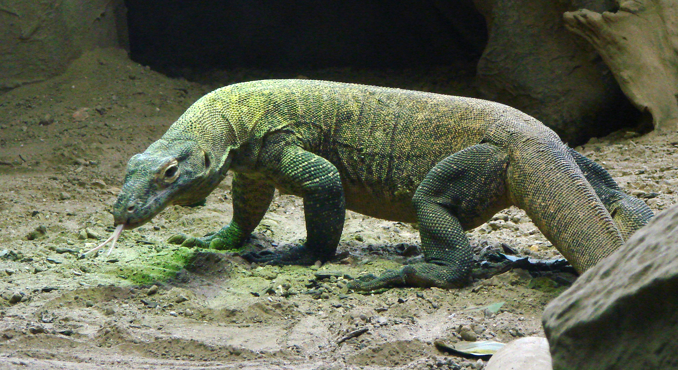 A young Komodo dragon ( Varanus komodoensis). Thoiry zoo.